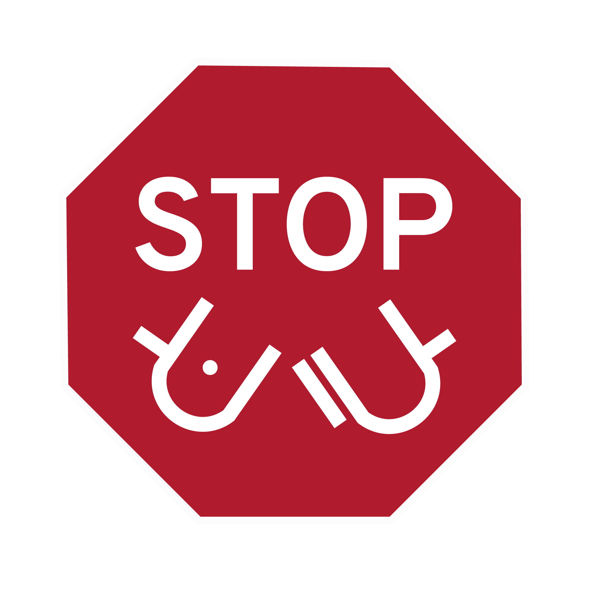 Stop sign mock-up in English and in ASL using ASLwrite